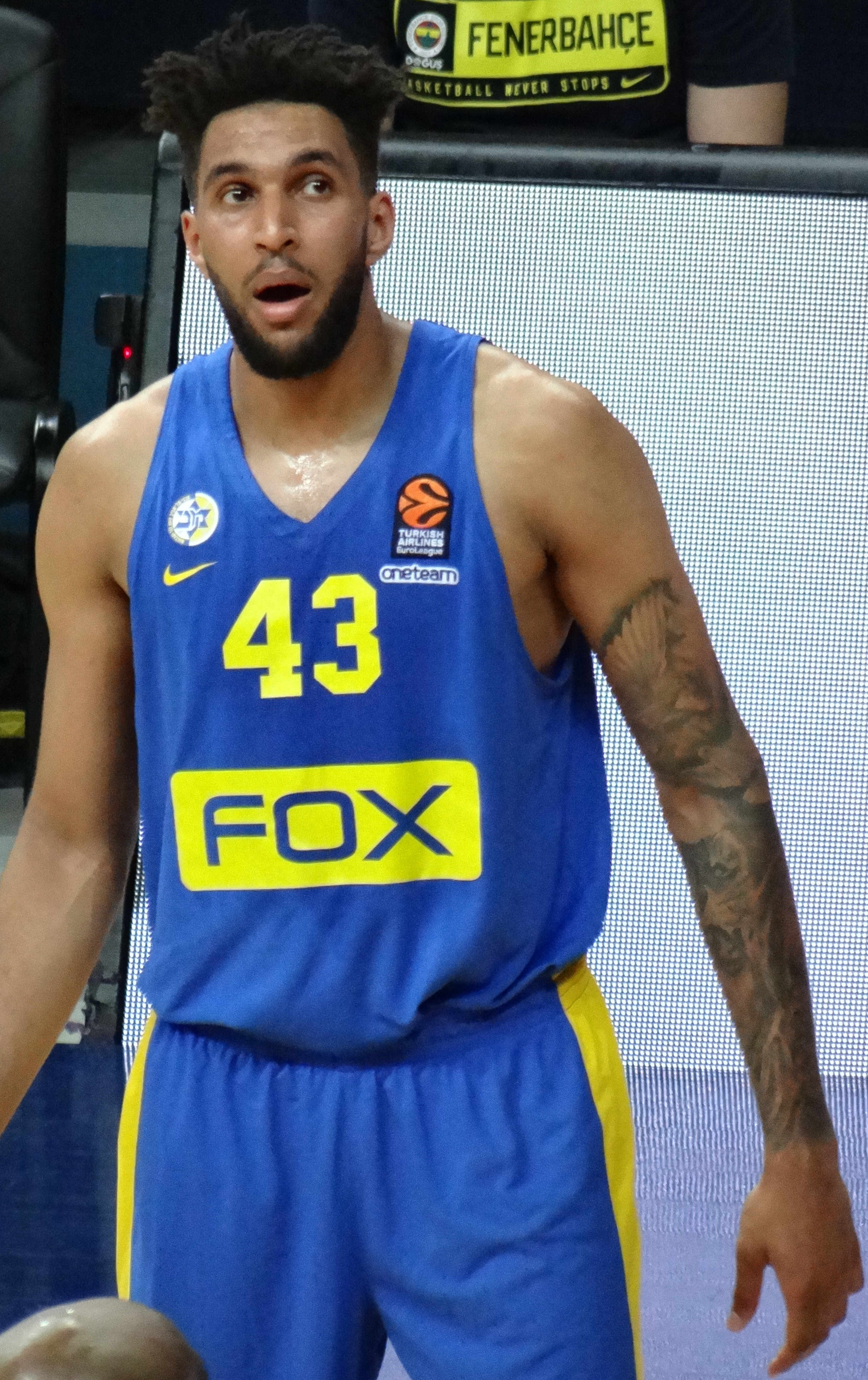 Jonah Bolden 43 Maccabi Tel Aviv B.C. EuroLeague 20180320